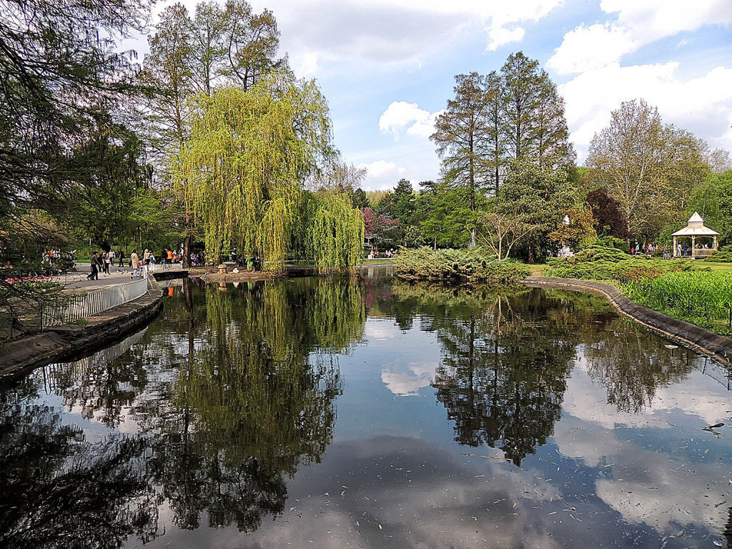 Ово је фотографија заштићеног природног добра у Србији под шифром: СП086 This is a a photo of a natural area in Serbia with ID: СП086 Snimljeno fotoaparatom Nikon Coolpix P510 .